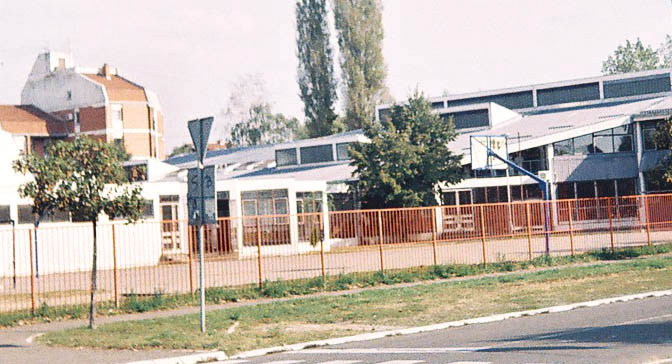 Elementary school Prva vojvođanska brigada in Novo Naselje neighborhood in Novi Sad. Serbian: Основна школа Прва војвођанска бригада на Новом Насељу у Новом Саду.